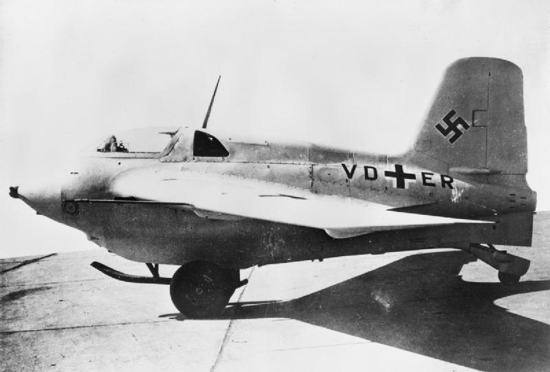 A German Messerschmitt Me 163B "Komet" (VD+ER). This was the 8th prototype aircraft of the Me 163B.